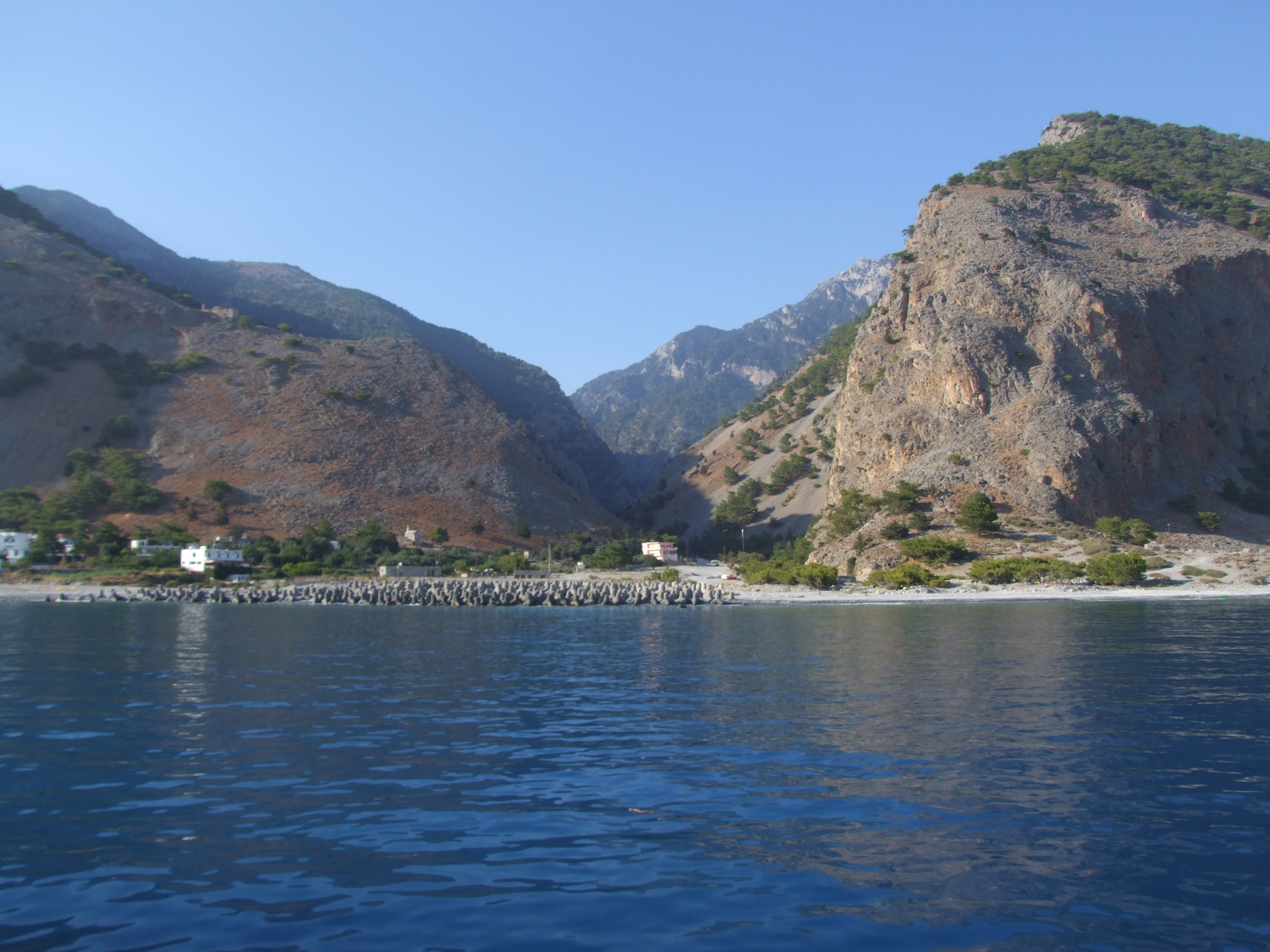 The Agia Roumeli village at the exit of the Samaria gorge at Chania - Crete, Greece.